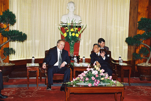 HANOI. President Putin with General Secretary of the Communist Party of Vietnam Le Kha Phieu.